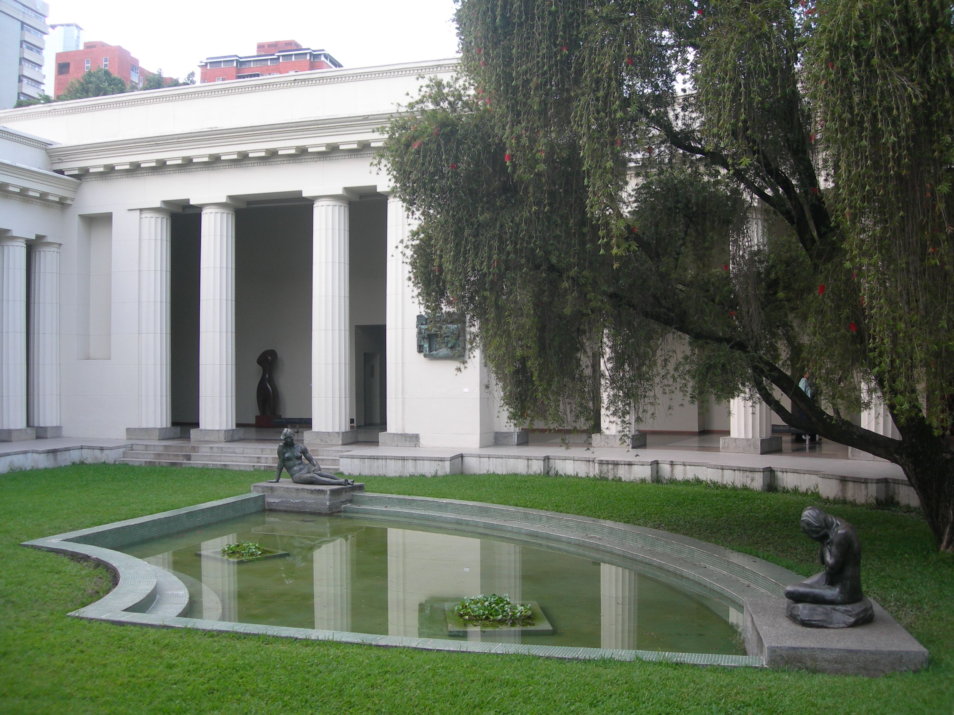 Interior courtyard garden of the National Art Gallery of Caracas (Venezuela).